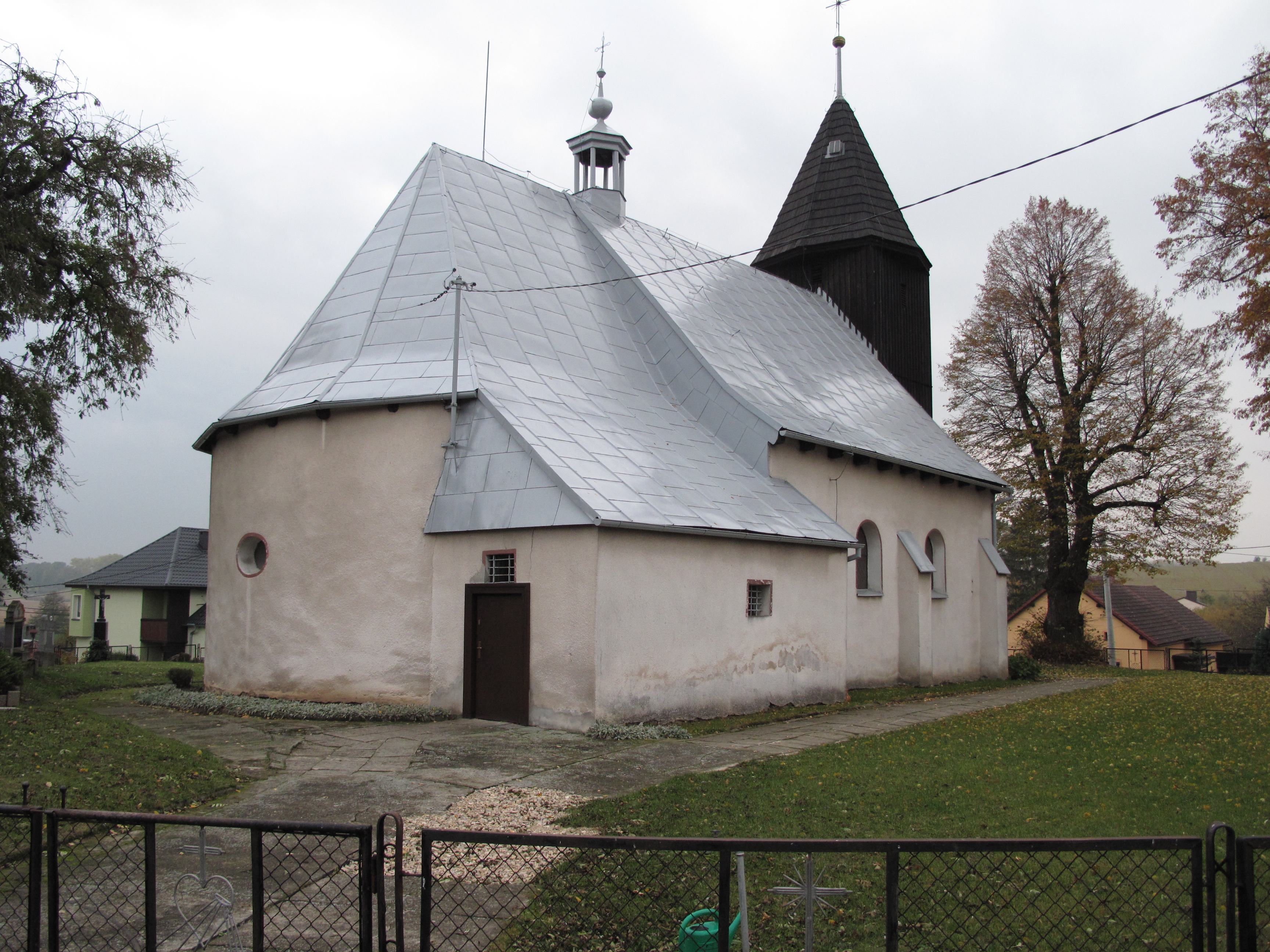 Milice (województwo opolskie). Kędzierzyn-Koźle County, Poland.